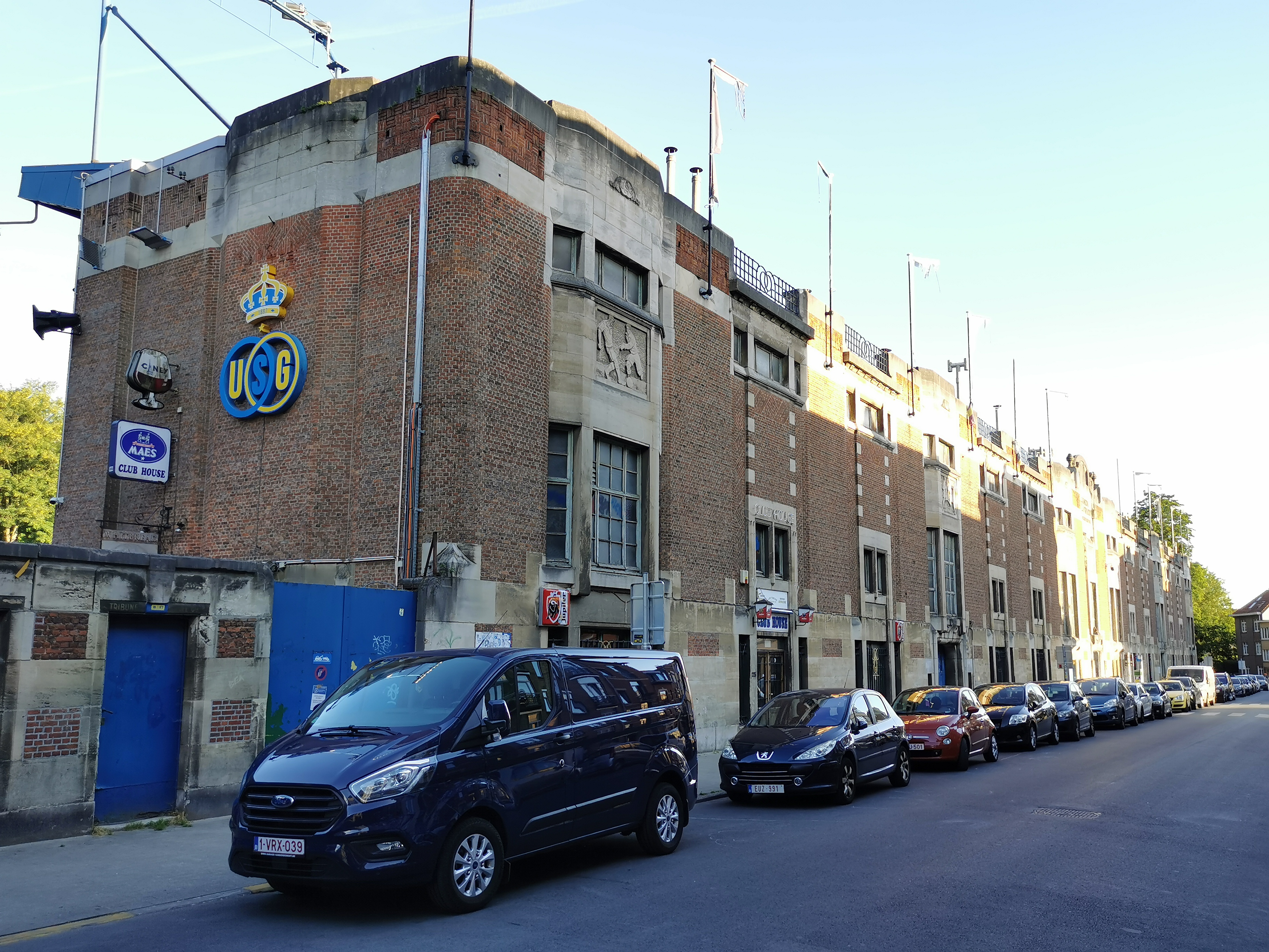 Union Saint-Gilles stadium